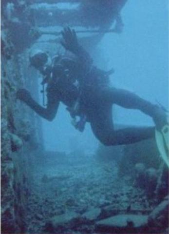 A diver by the covered walkway below the bridge of the Thistlegorm